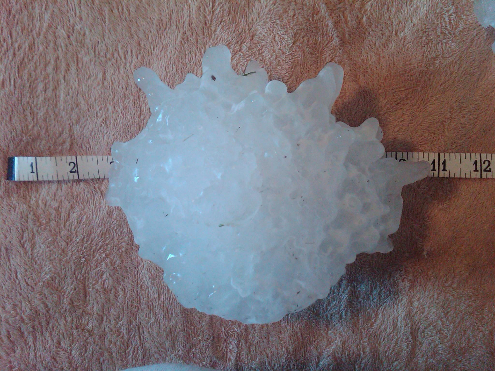 A record-setting hailstone that fell in Vivian, South Dakota on July 23, 2010. The hailstone broke the United States records for largest hailstone by diameter (7.9 inches) and weight (1 pound 15 ounces).